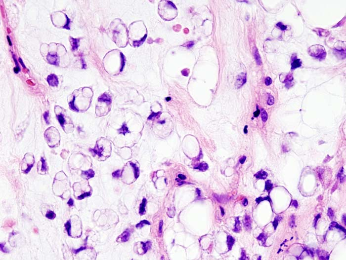 Histopathologic image of myxoid liposarcoma arising in the deep soft tissue of the thigh. H & E stain. The same case as shown in a file "Myxoid_liposarcoma_(1).jpg".